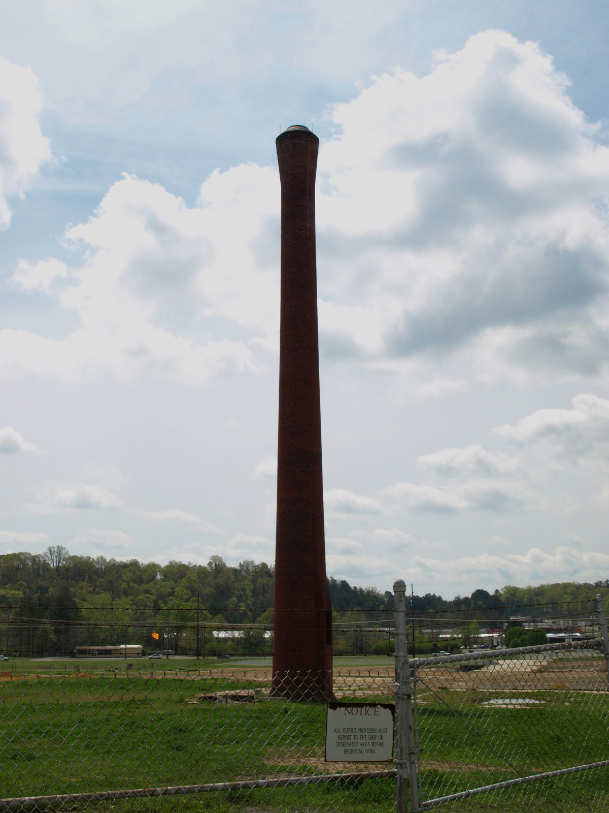 A chimneystack of the Avondale Mill in Pell City, Alabama, part of the Avondale Mill Historic District.